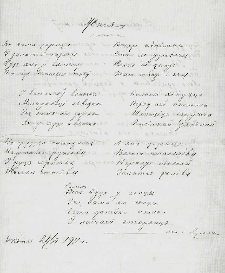 Replica of a manuscript of Yanka Kupala's poem 'Reaper' (1911, Akopy) Беларуская (тарашкевіца): Рэпрадукцыя рукапісу верша Янкі Купалы "Жняя" (Акопы, 1911)